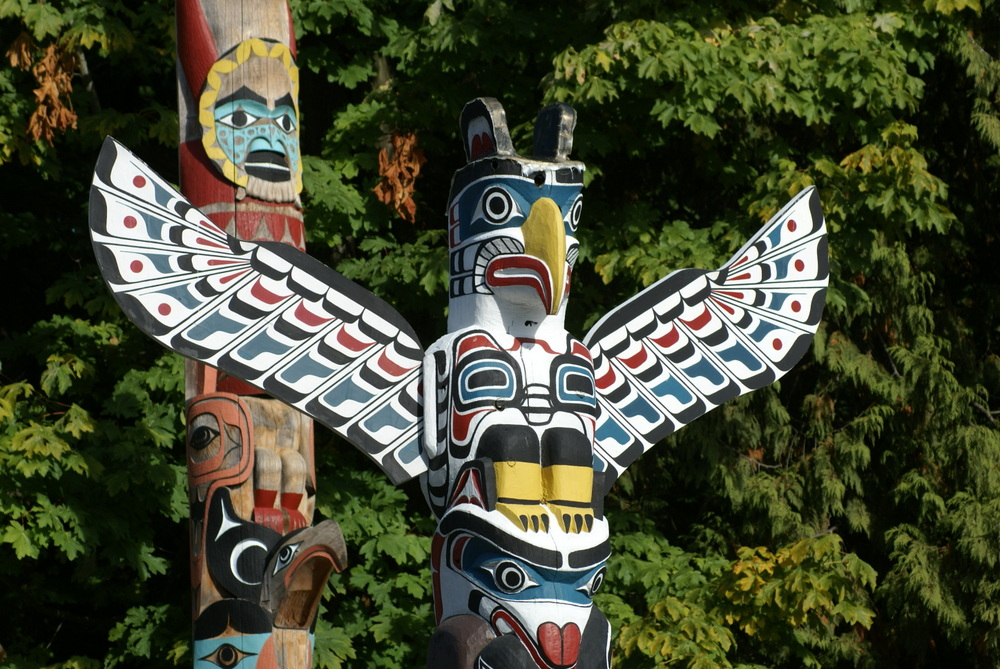 In the foreground, the top of Kakaso'Las Totem Pole. Carved by Kwakwaka'wakw artist Ellen Neel and her uncle Mungo Martin, for Woodward's Department Store, in 1955.